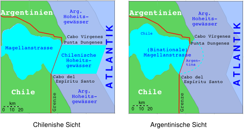 Two versions of the east mouth of the Strait of Magellan during the Beagle conflict. German text.